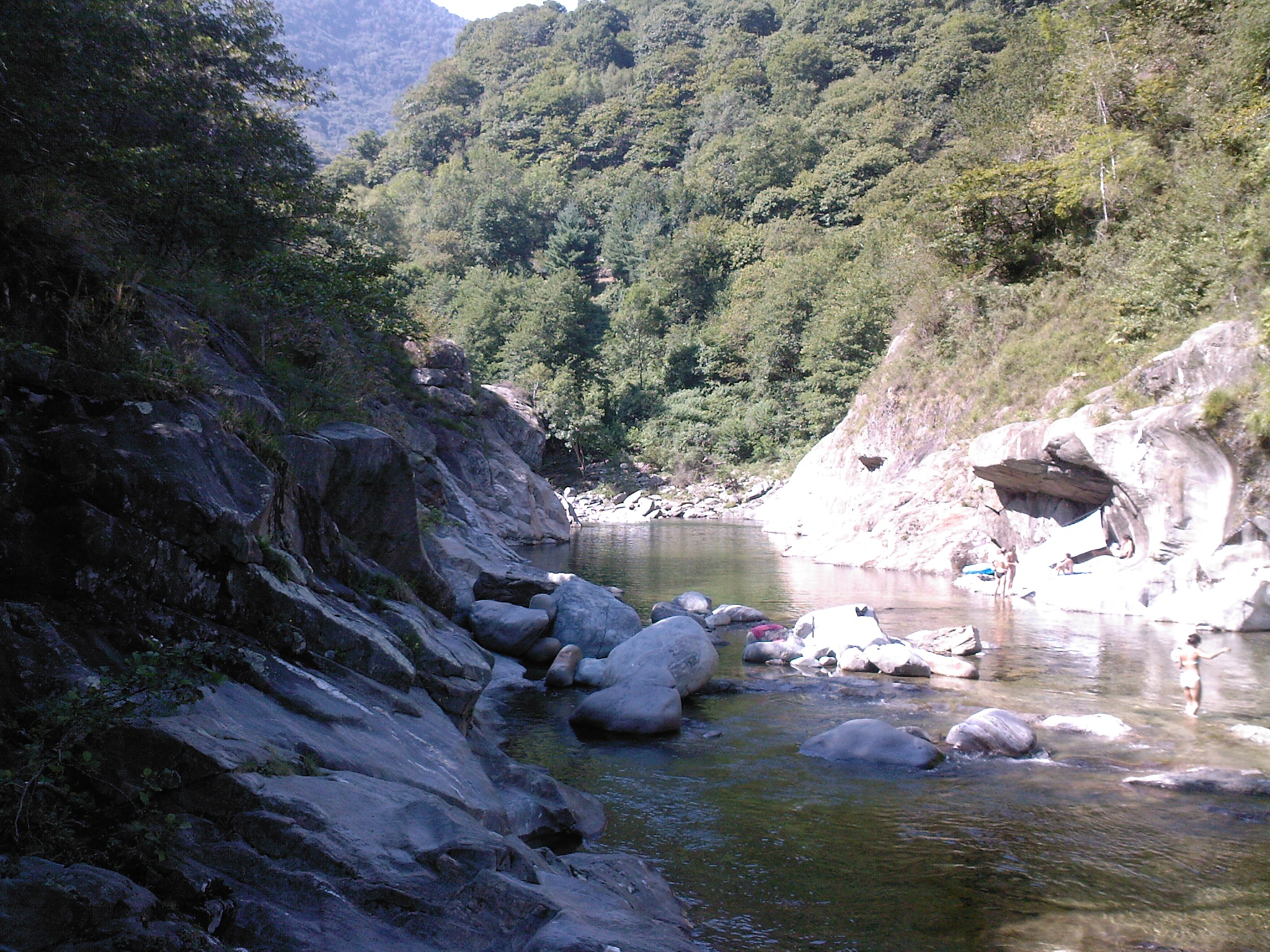 28804 San Bernardino Verbano, Province of Verbano-Cusio-Ossola, Italy